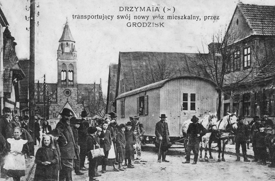 Michał Drzymała in Grodzisk Wielkopolski (Poland)